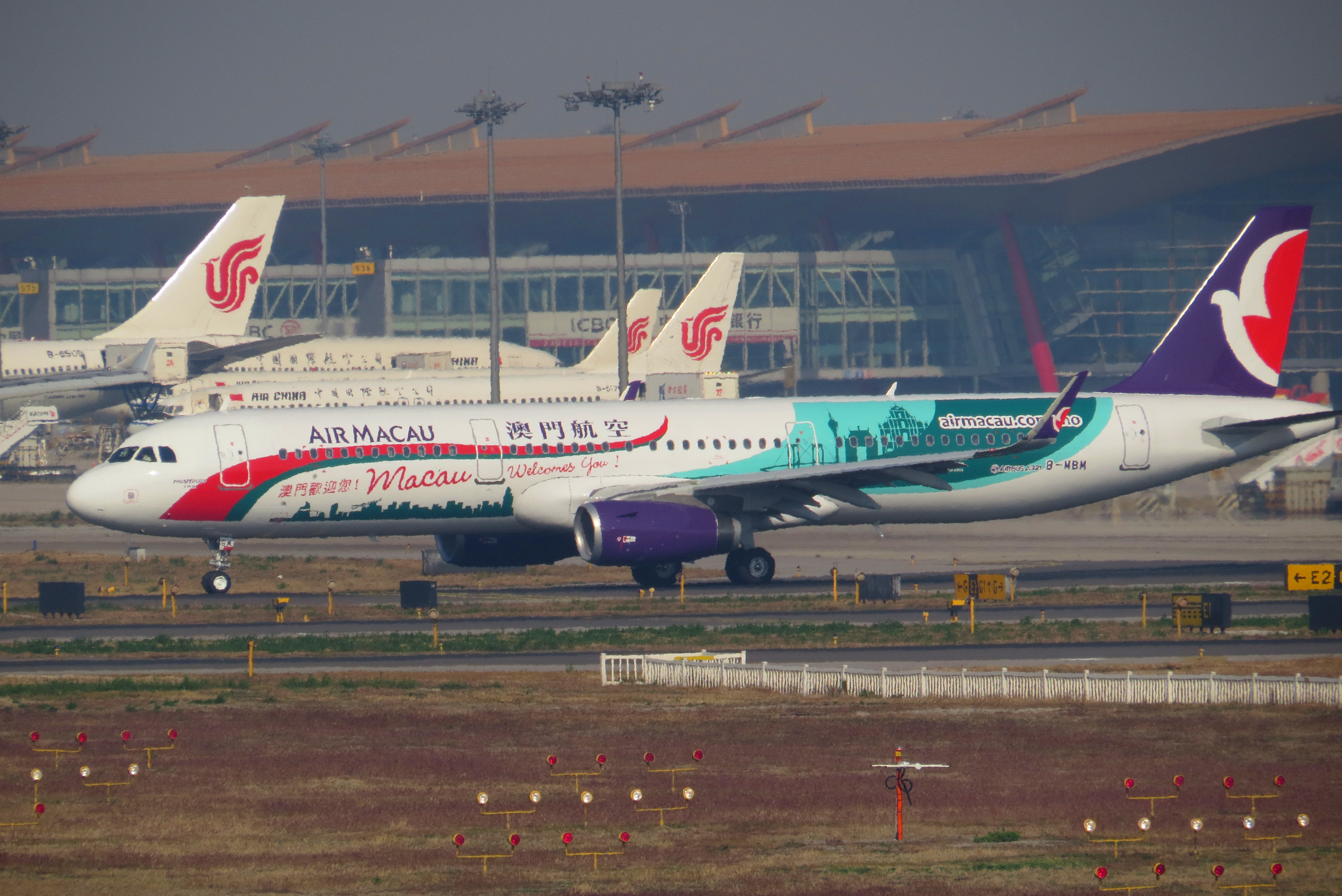 Air Macau 5 to Macau. A treat beyond the conference: an A321WL with "Macau Welcomes You" special livery!